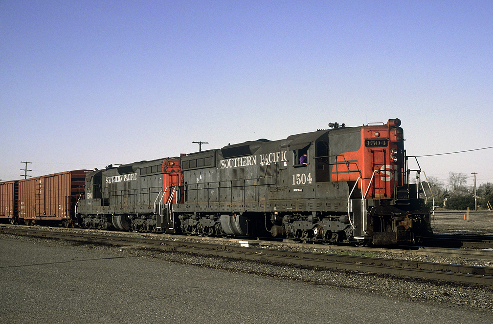 Two of SP's then forty year old SD7's still at work switching the East end of the Roseville yard